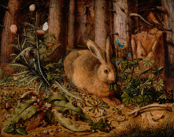 A Harein the forest, oil on panel)